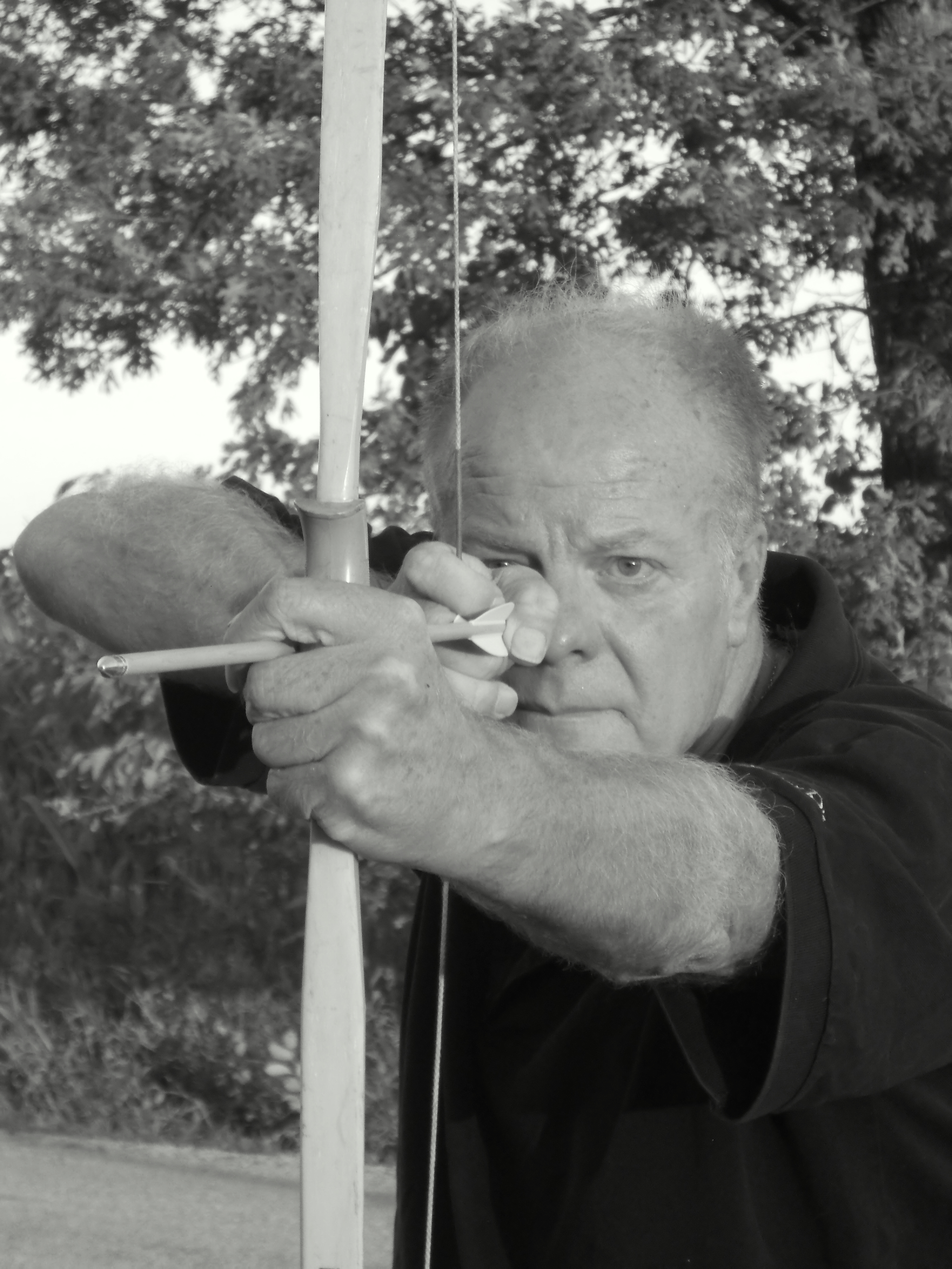 The Emperor's Poet, Portrait of Christian Narkiewicz-Laine, 2013